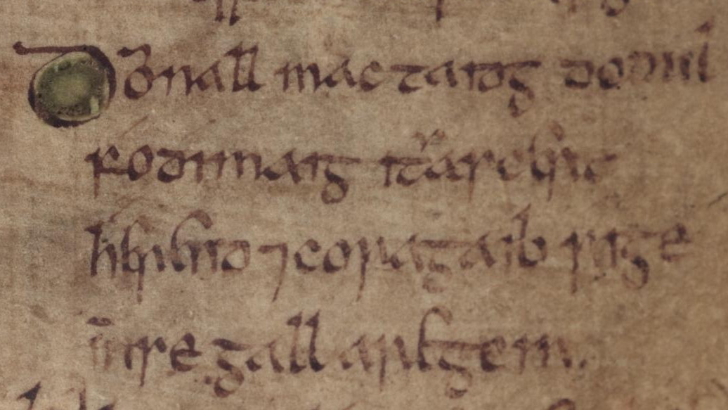 An excerpt from folio 33r of Bodleian Library MS Rawlinson B 503 (the Annals of Inisfallen). The excerpt reads in Gaelic: "Domnall mac Taidg do dul fó dímaig i tuascert h-Érend & co ragaib ríge Innse Gall ar egein". The excerpt refers to Domnall mac Taidc, King of the Isles (died 1115).